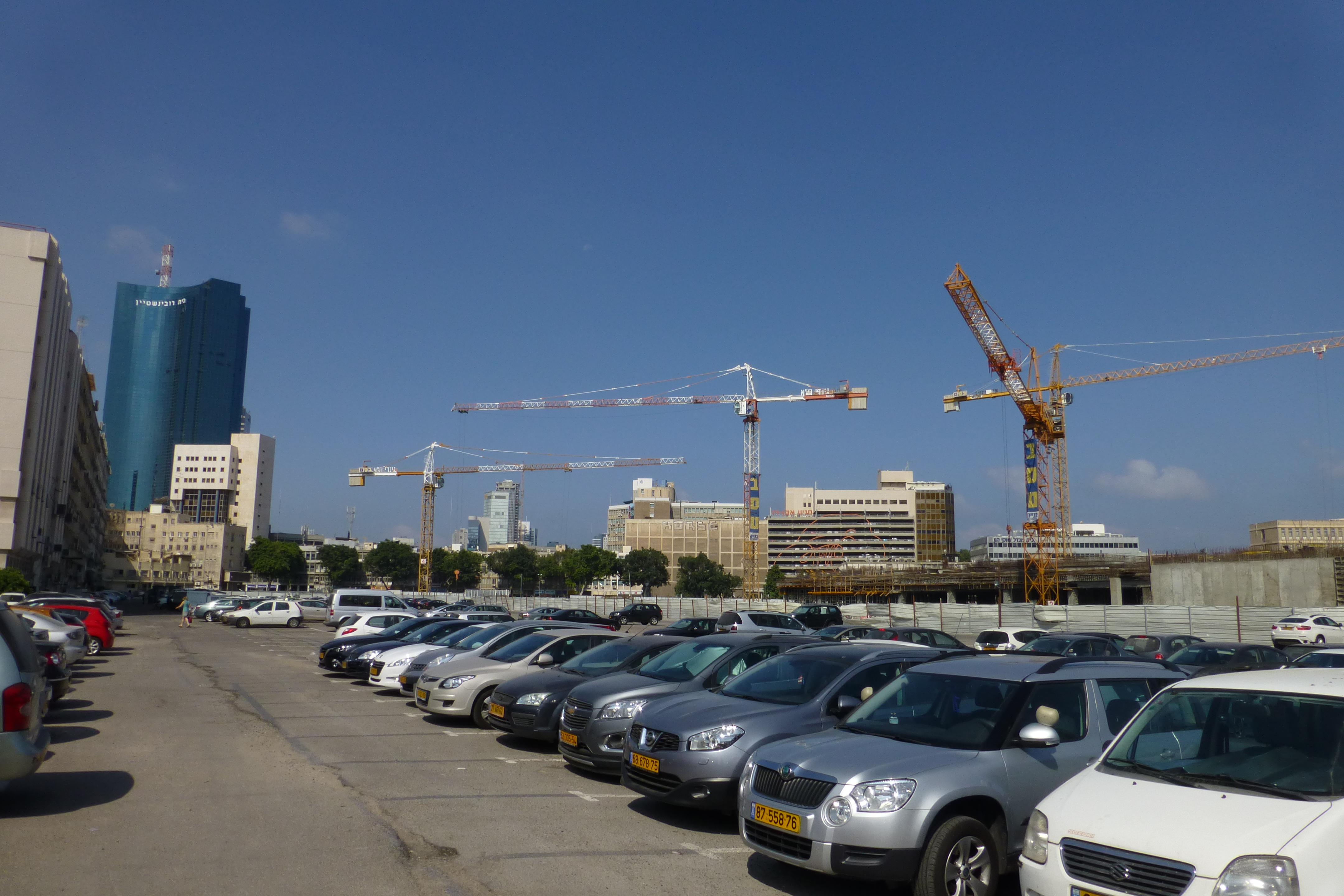 Tel Aviv-Yafo